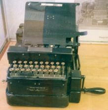 A portable Typex Mk III at Bletchley Park museum. * Source: [1], [2] * Author: Professor Arturo Quirantes Sierra * License: Author agreed to license the image under the GFDL after an email exchange with User:Matt Crypto.